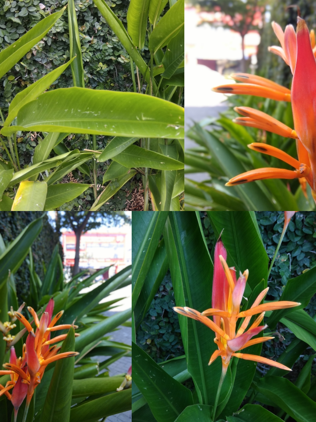 Heliconia psittacorum